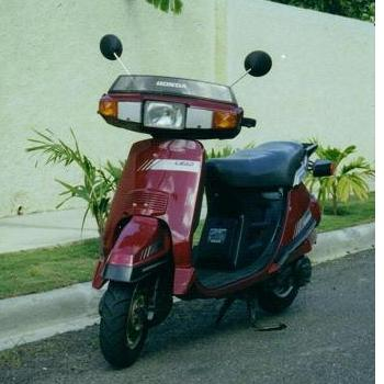 1988 Honda Lead 125 NH125 Burgundy